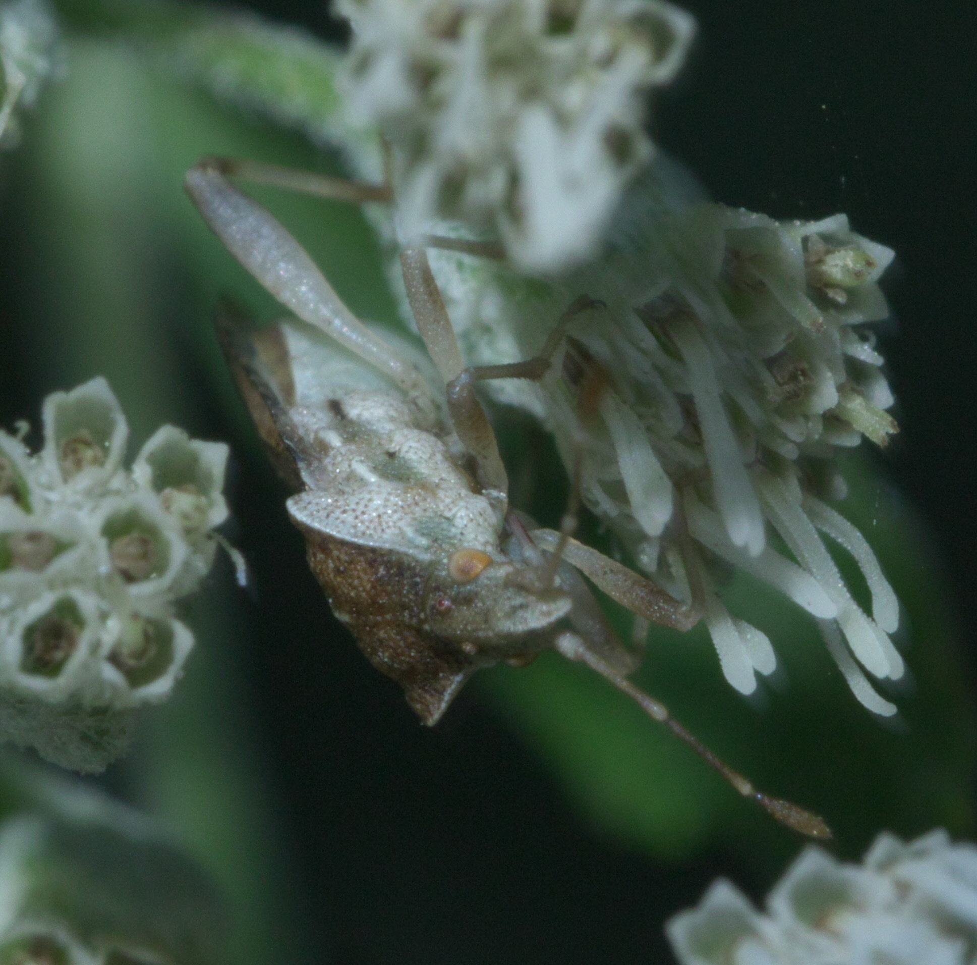 Harmostes fraterculus, Family: Scentless Plant Bugs, ID Confidence: 98